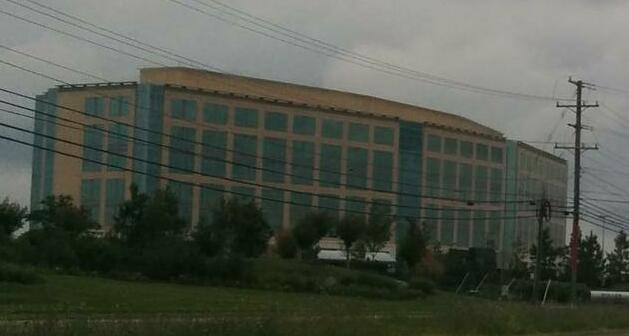 CIA University building. Dulles Discovery 3 3228 Centreville Rd Herndon, VA 20171 The CIAU campus is located within the Dulles Discovery office buildings in Chantilly, Virginia, which were constructed in 2007 and 2010. Compare